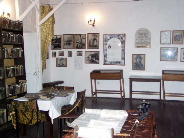 Chewra Nosim Synagogue in Lublin